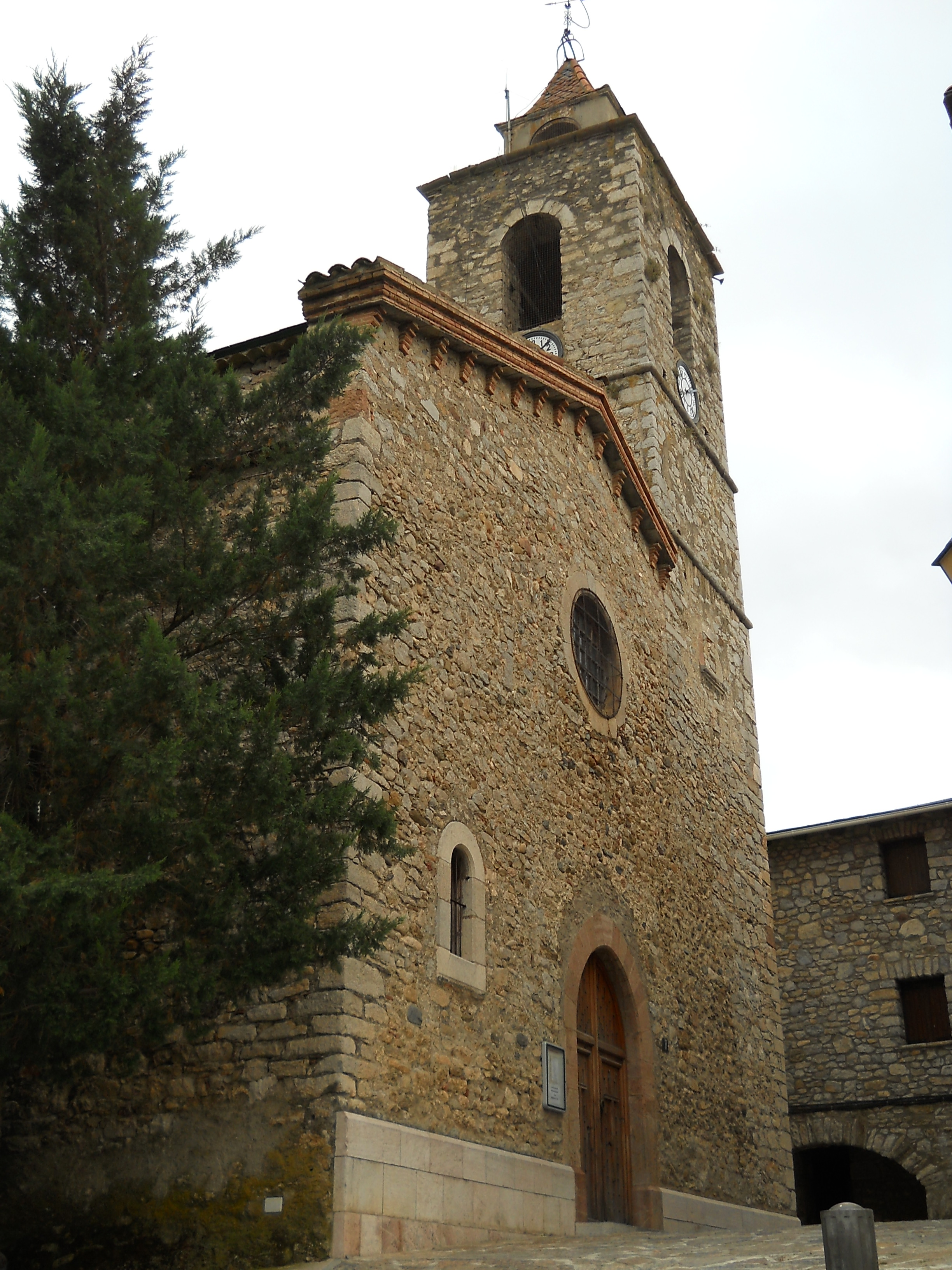 Church of Santa Maria i Sant Jaume (St. Mary and St. James), Bellver de Cerdanya, Lleida, Spain